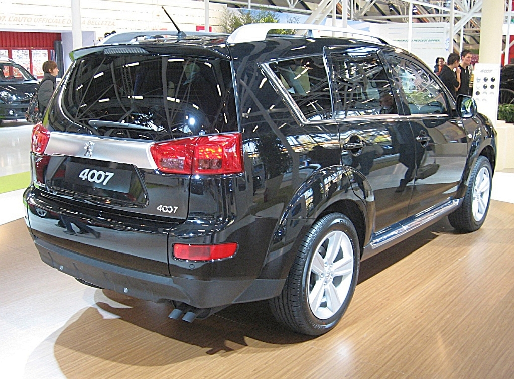 Subject:Peugeot 4007 Author:Luc106 Date:December 13th, 2007 Event:Motor Show Bologna 2007 Place/Country: Bologna, Italy I release all rights in the public domain.